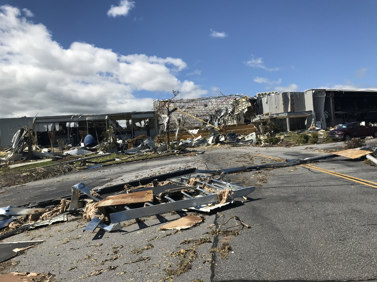 EF3 damage to the BorgWarner plant in Seneca, South Carolina.